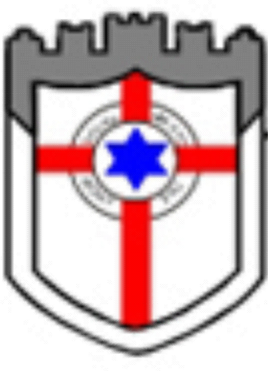 Brasão de Sacramento